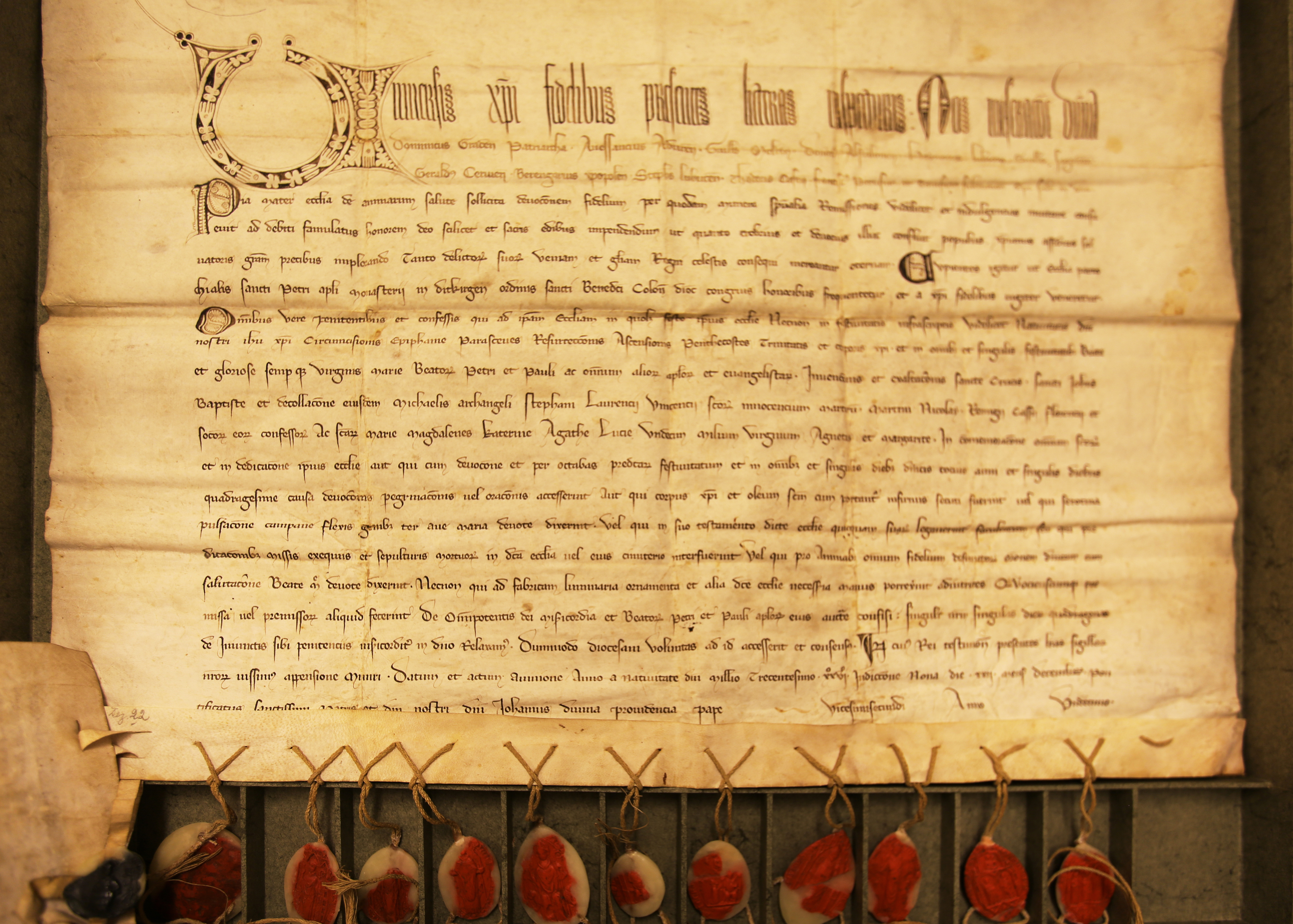 Authenticated document of indulgence in 1326